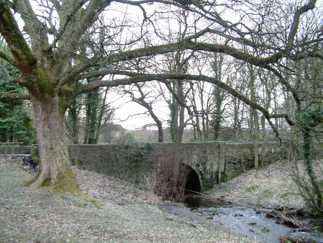 Oldhay Brook. Picture shows the bridge carrying Old Hay Lane over Oldhay Brook.